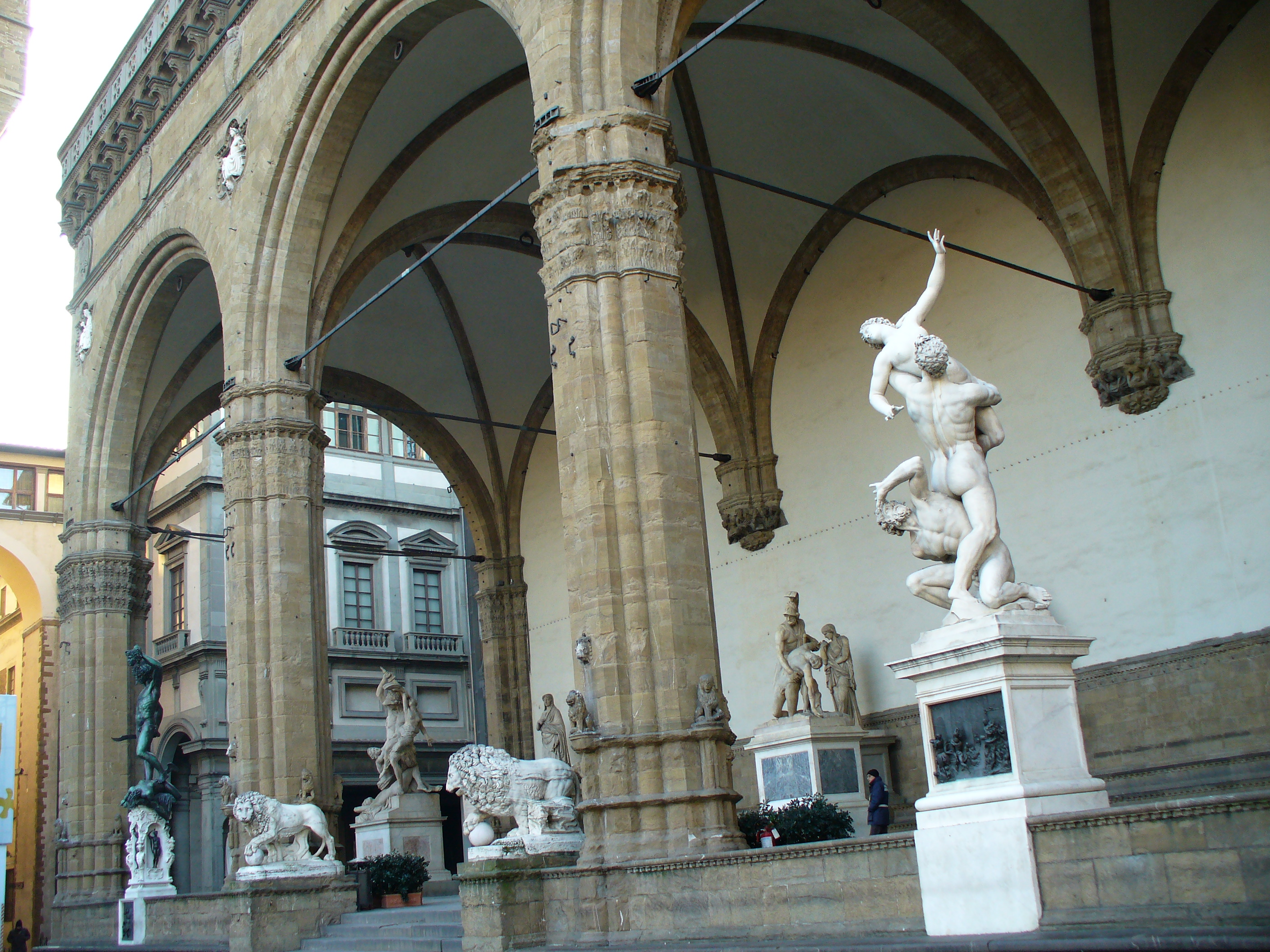 Loggia dei Lanzi